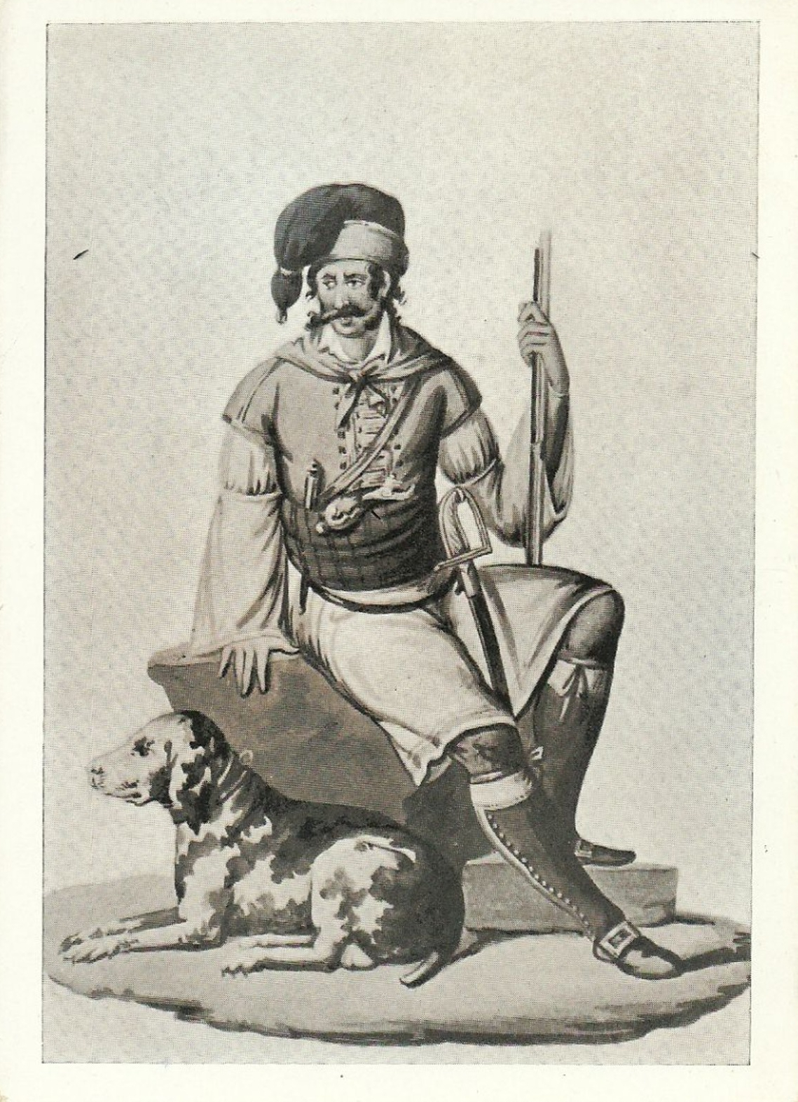 Costume of Villa Badessa, Watercolor from Michela de Vito, 1820